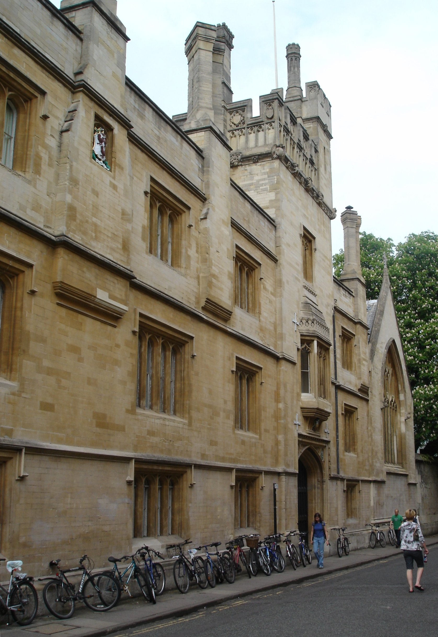 The Turl Street entrance to Jesus College, Oxford